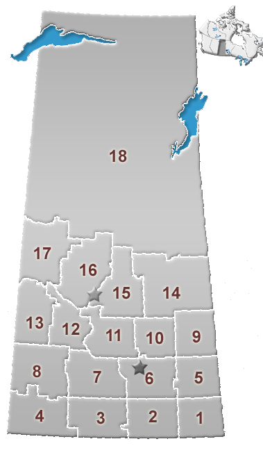 numbered census divisions of Saskatchewan